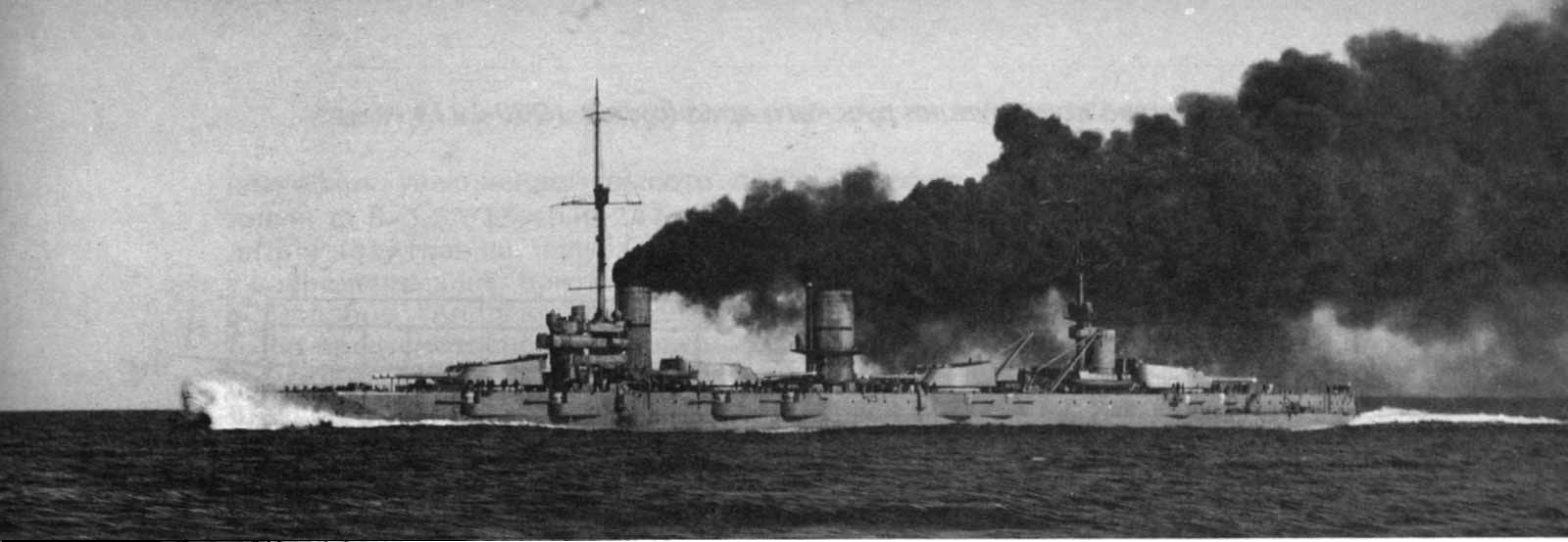 Battleship Poltava, 21 November 1915.